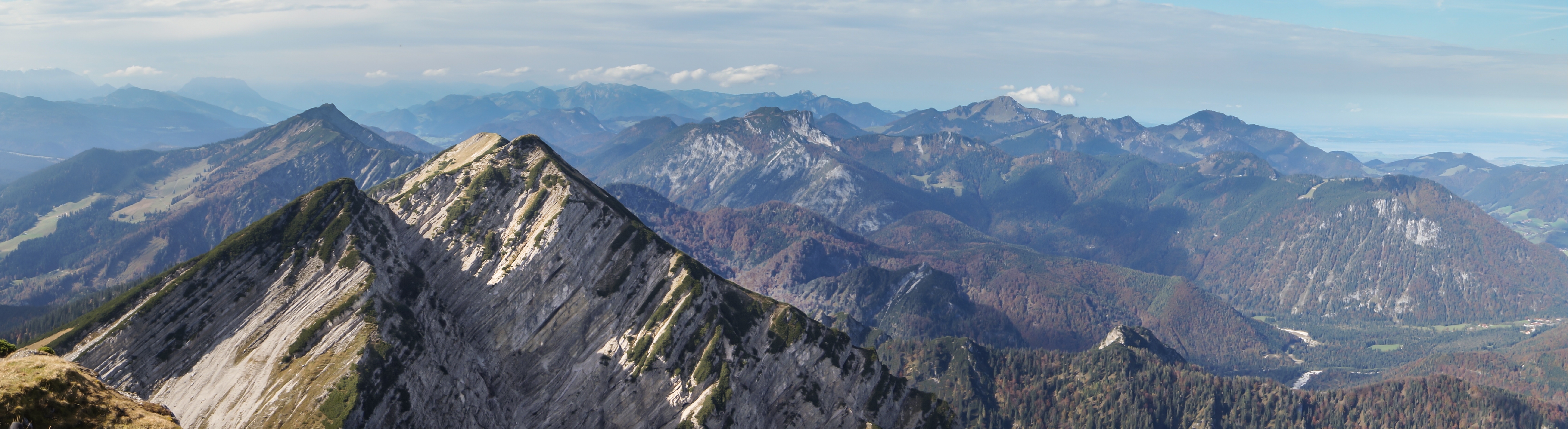 Panoramic view from the Sonntagshorn summit facing west (altitude 1961 m). The peak Vorderlahner Kopf (altitude 1882.6 m) is prominent in the foreground. Photographed in October.